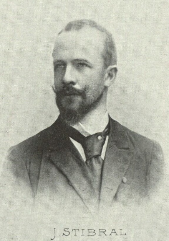 Portrait of Jiří Stibral (1859-1939), Czech architect.